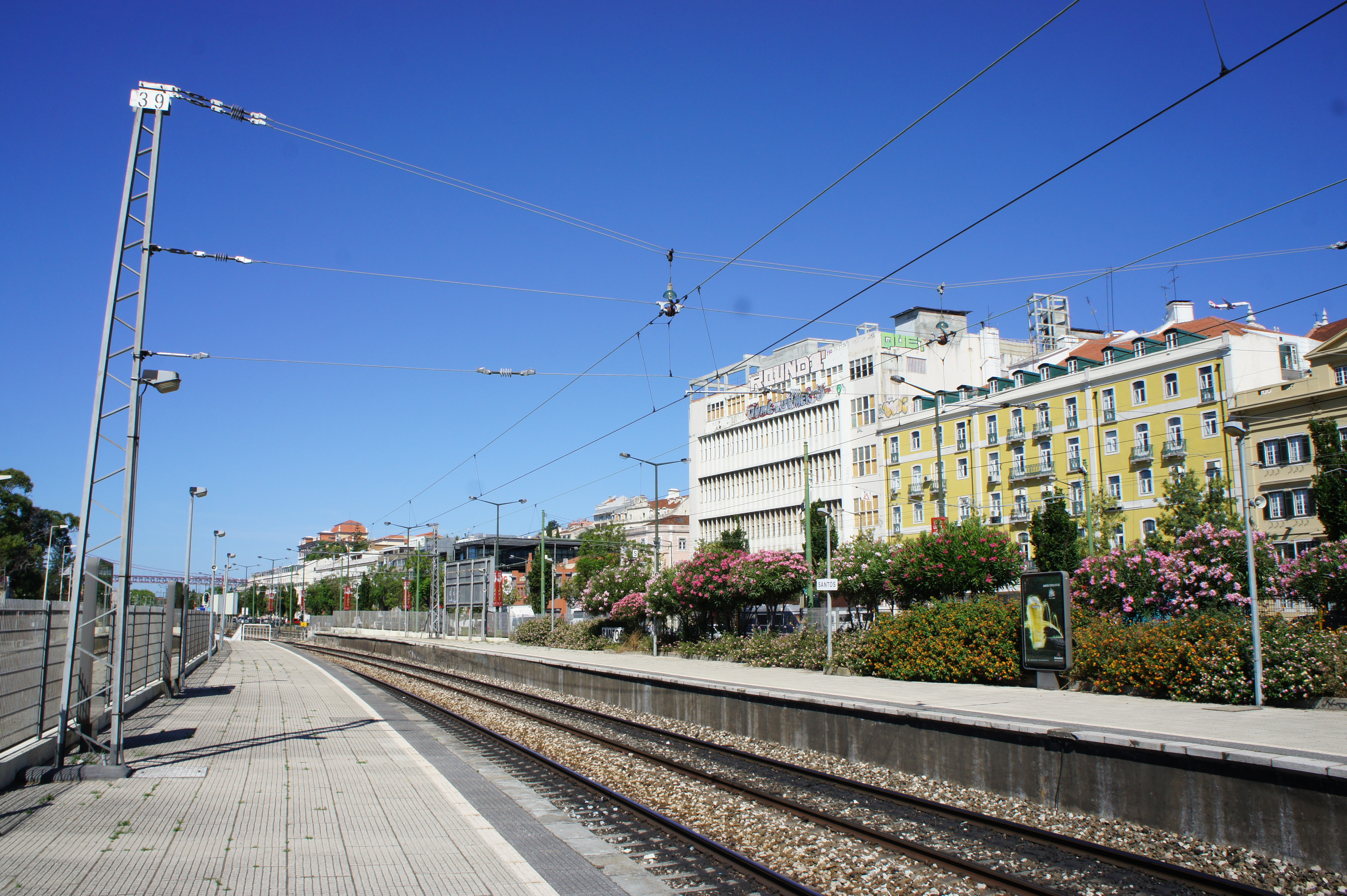 Santos train station, Portugal